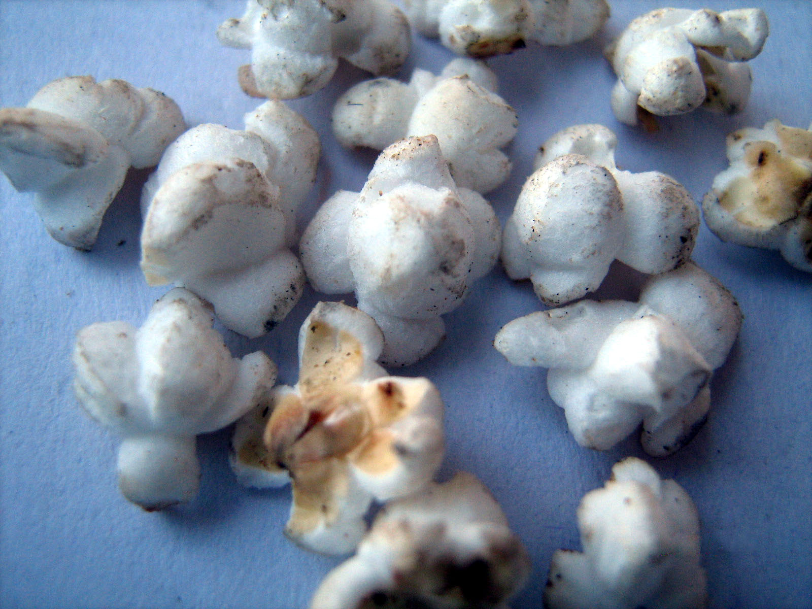 grains of sorghum's popcorn!, Tamil Nadu, India